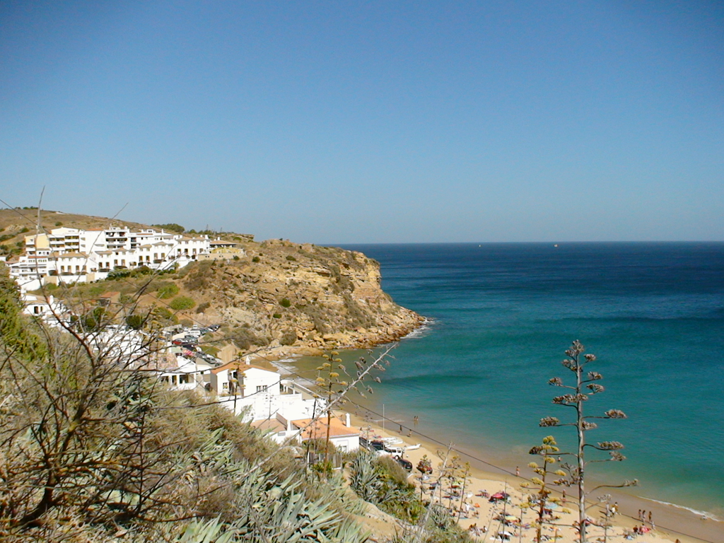 View of Burgau. Summer 2007